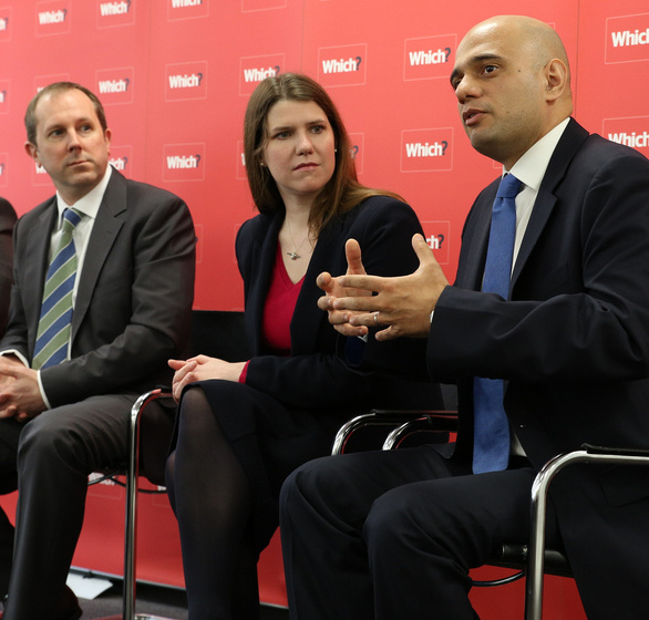 Which? executive director Richard Lloyd, Consumer Affairs Minister Jo Swinson MP and Treasury Secretary Sajid Javid discuss payday lending.